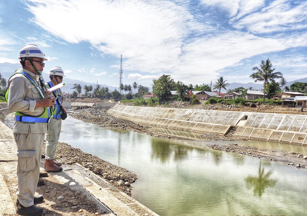 Normalisasi sungai di Padang